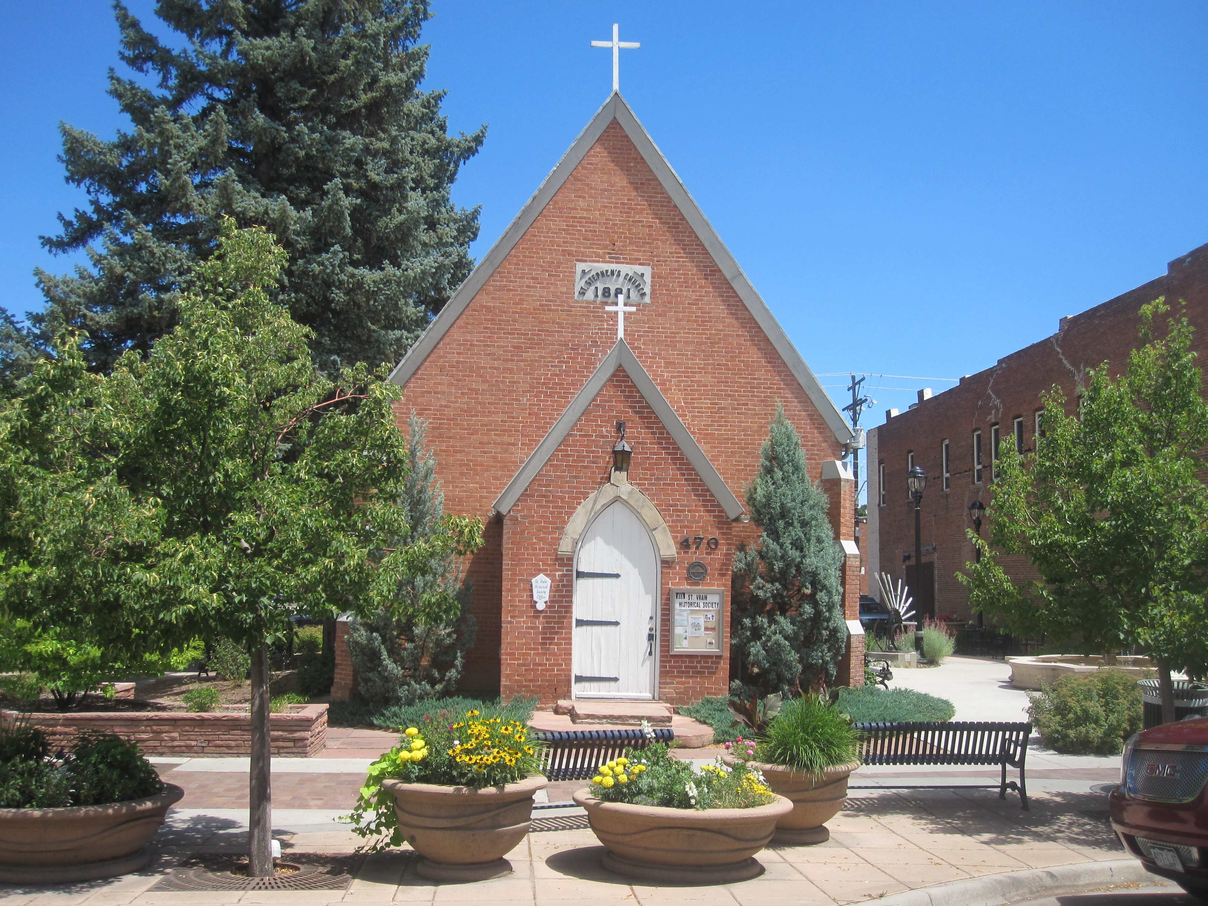 I took photo with Canon camera in Longmont, CO.